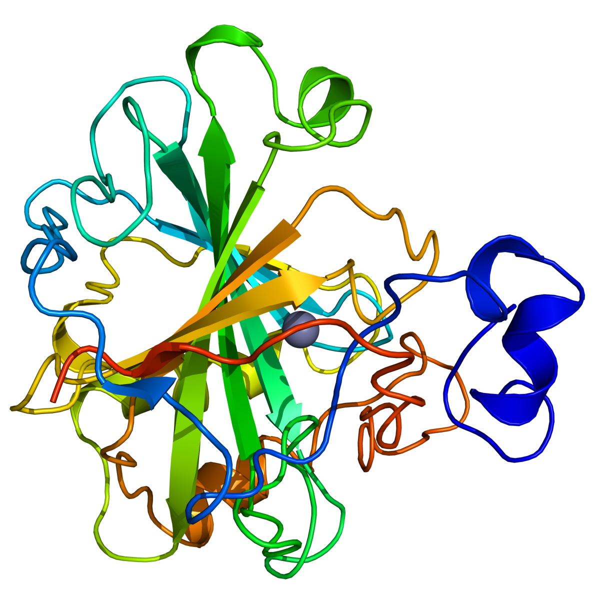 Ribbon diagram of human carbonic anhydrase II. Zinc ion visible at center. Created using PyMOL ( and GIMP.